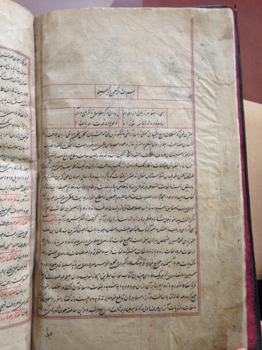 Burhan-i Qati, a dictionary of the Persian language, including words borrowed from the Arabic and other languages, compiled by Muhammad Husayn ibn Khalaf Tabrizi Burhan. It was dedicated to Sultan 'Abd Ullah Kutubshah, who reigned in Golconda from A.H. 1035 to 1083, and was completed in A.H. 1062 (A.D. 1651-1652). The work was edited by Thomas Roebuck, Calcutta, 1818, and was incorporated in its entirety by J. A. Vullers in his Lexicon Persico-Latinum. National Library of Wales - MS 5449C